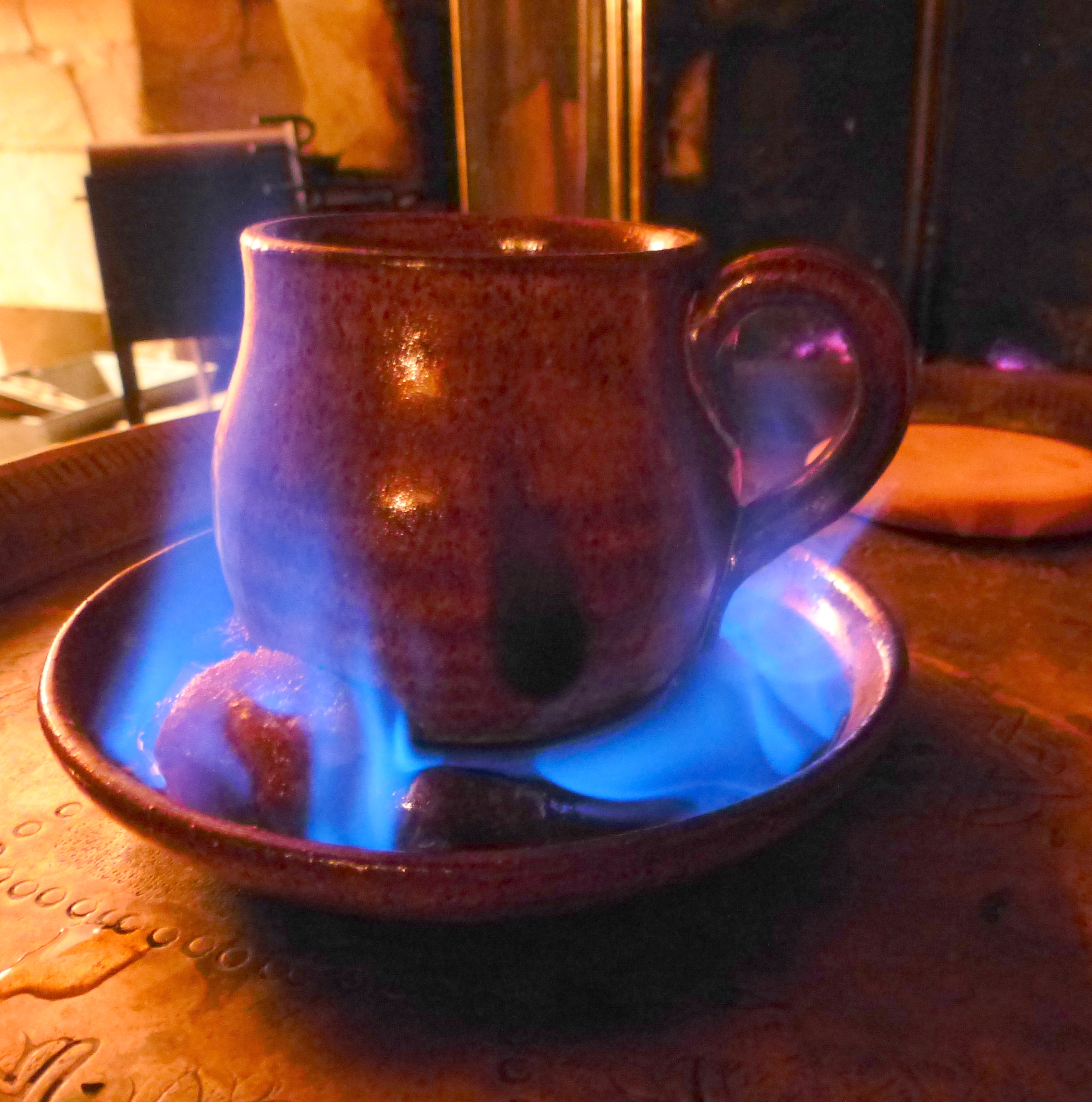 Brûlot charentais: cold coffee re-heated using strong cognac, burnt on sugar cubes, before pouring the liquor into it. Special heatproof stoneware cup and terracotta circle. Charente-Maritime, France.